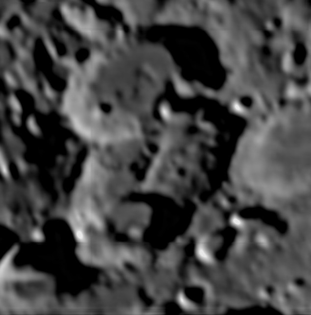 the lunar Carter Heraclitus.